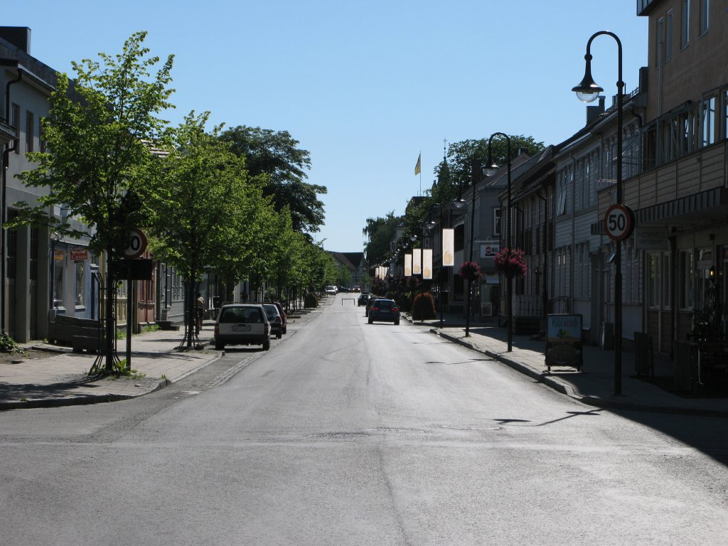 Kirkegata Levanger